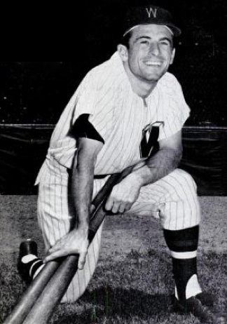 Washington Senators outfielder Albie Pearson in a 1959 issue of Baseball Digest.